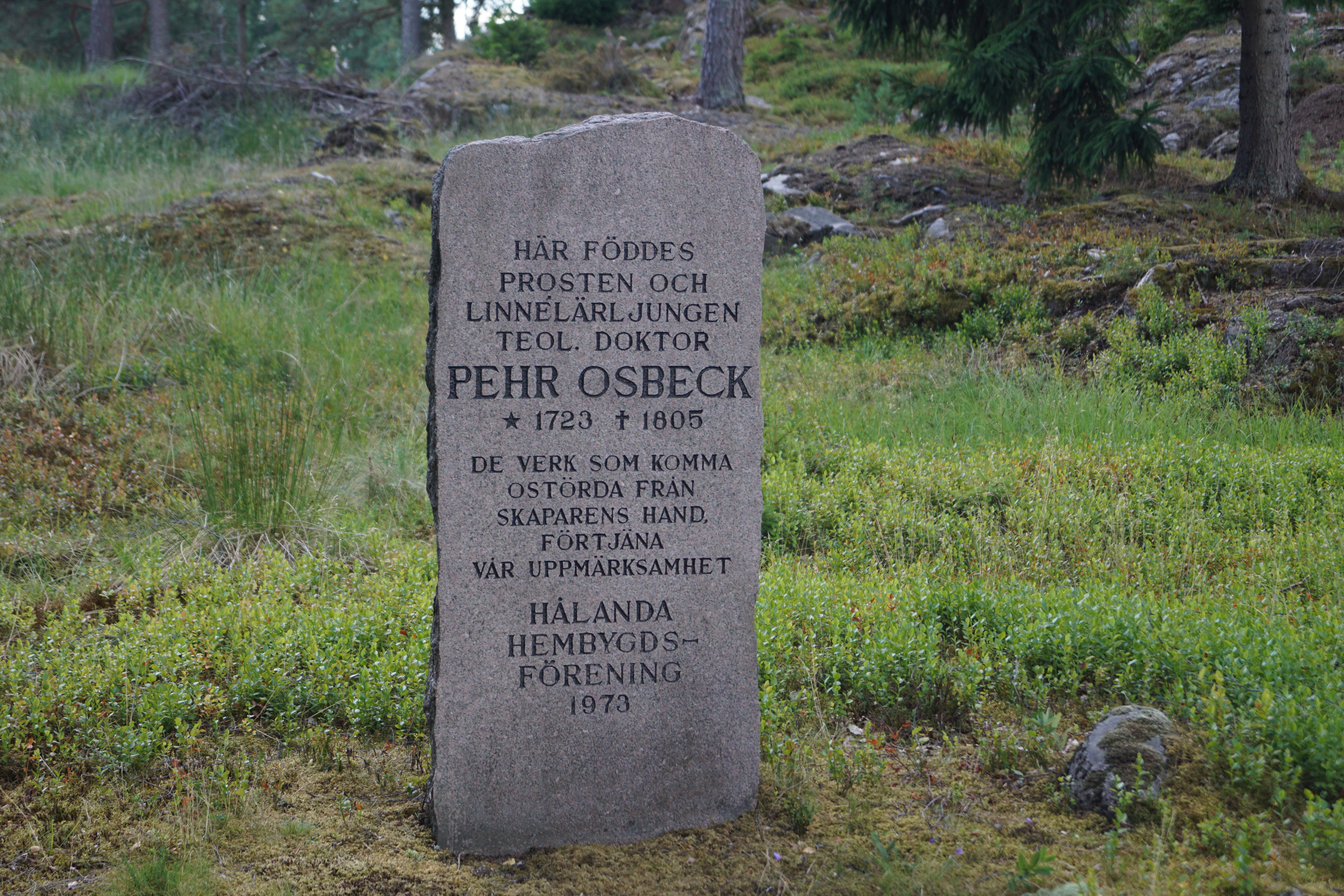 Memorial stone over Pehr Osbeck in Hålanda socken, Ale Municipality, Sweden